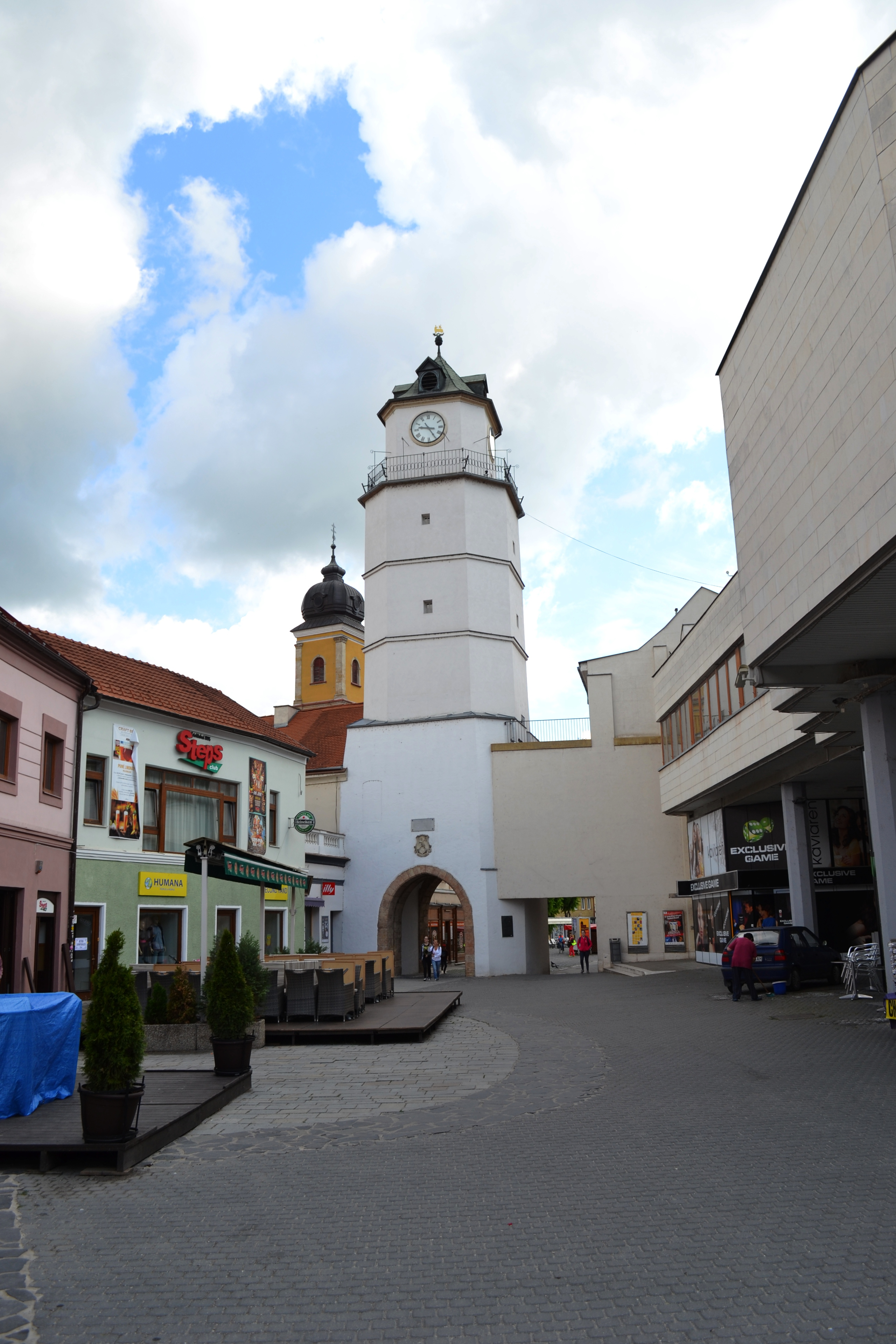 Lower Gate (City Tower) in Trenčín